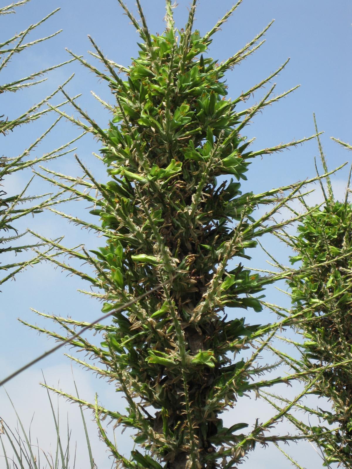 Photographed at Huntington Gardens (Los Angeles) in April